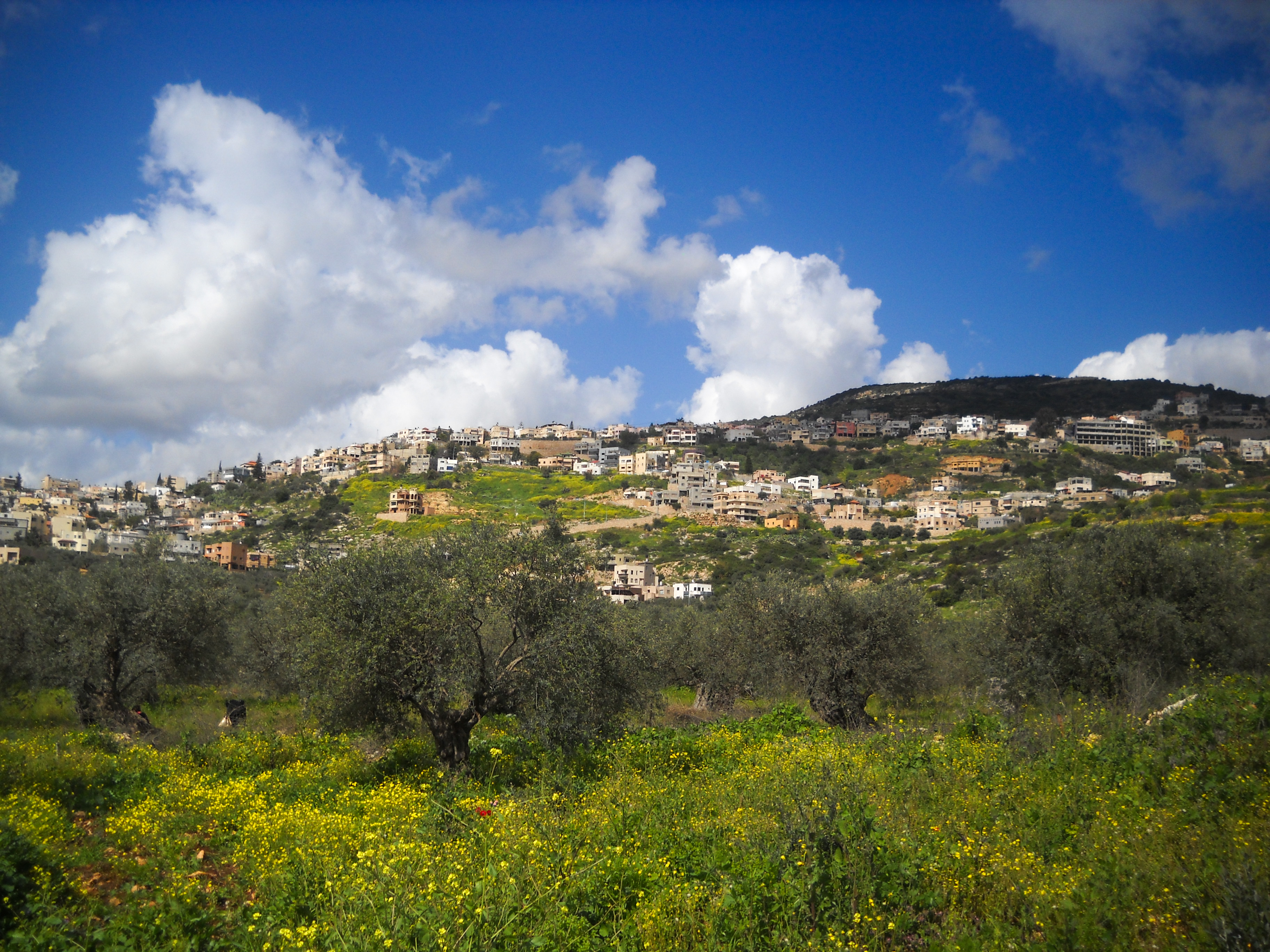 a View of Maghar Village, from "Ras-al Khabia" neighborhood.